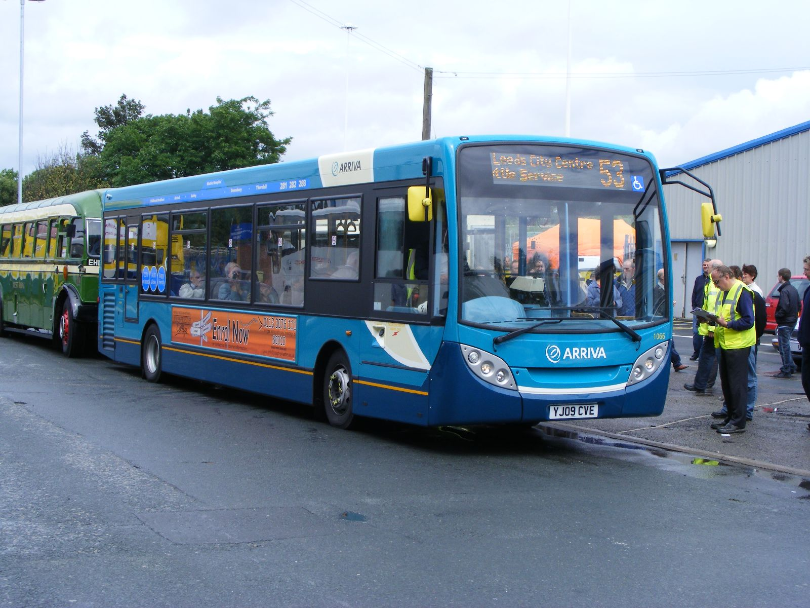 Arriva Yorkshire 1066 YJ59 CVE, at the 2009 Leeds bus rally.